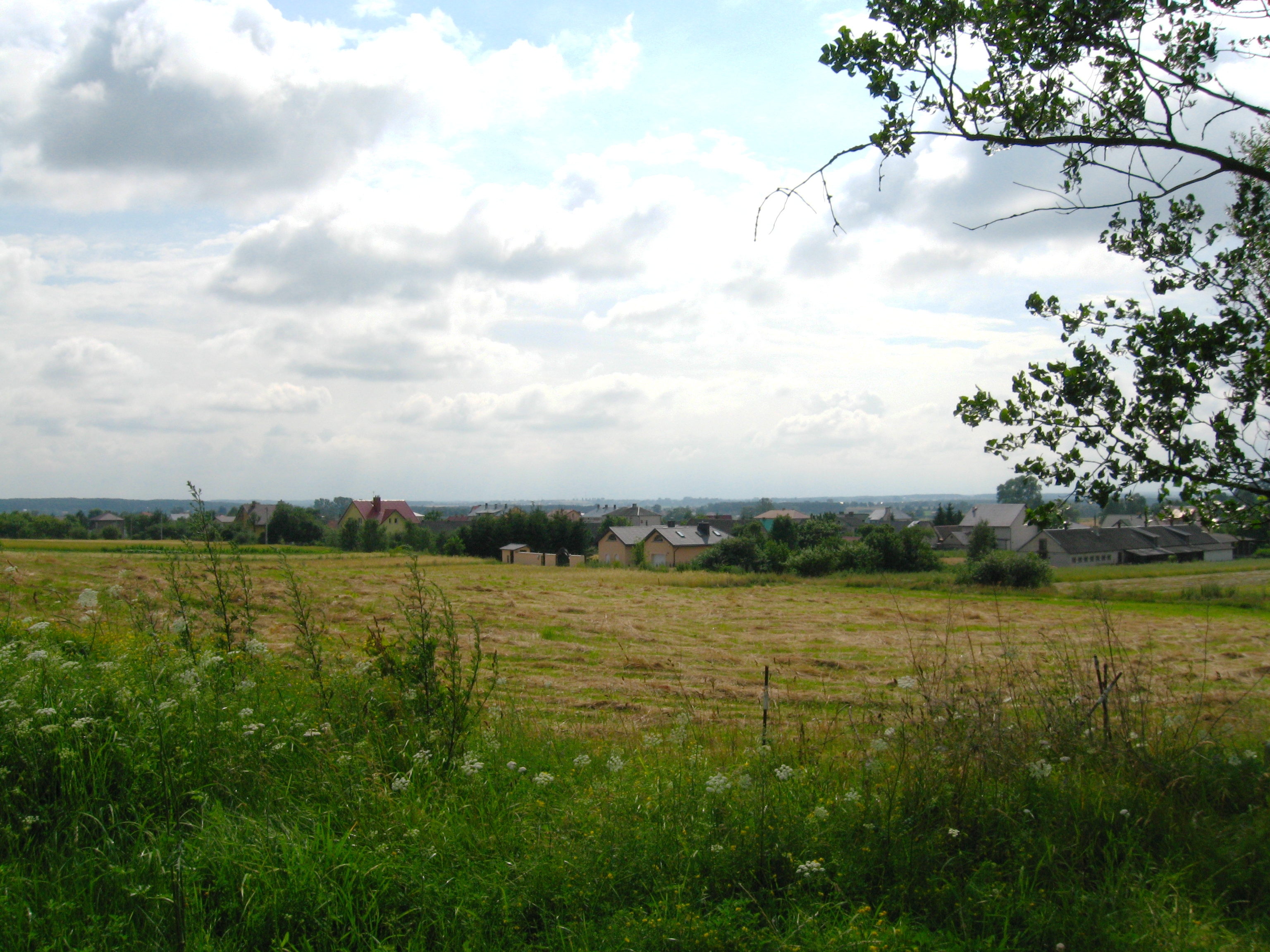 Dobrzyniewo Duże — view from CR65